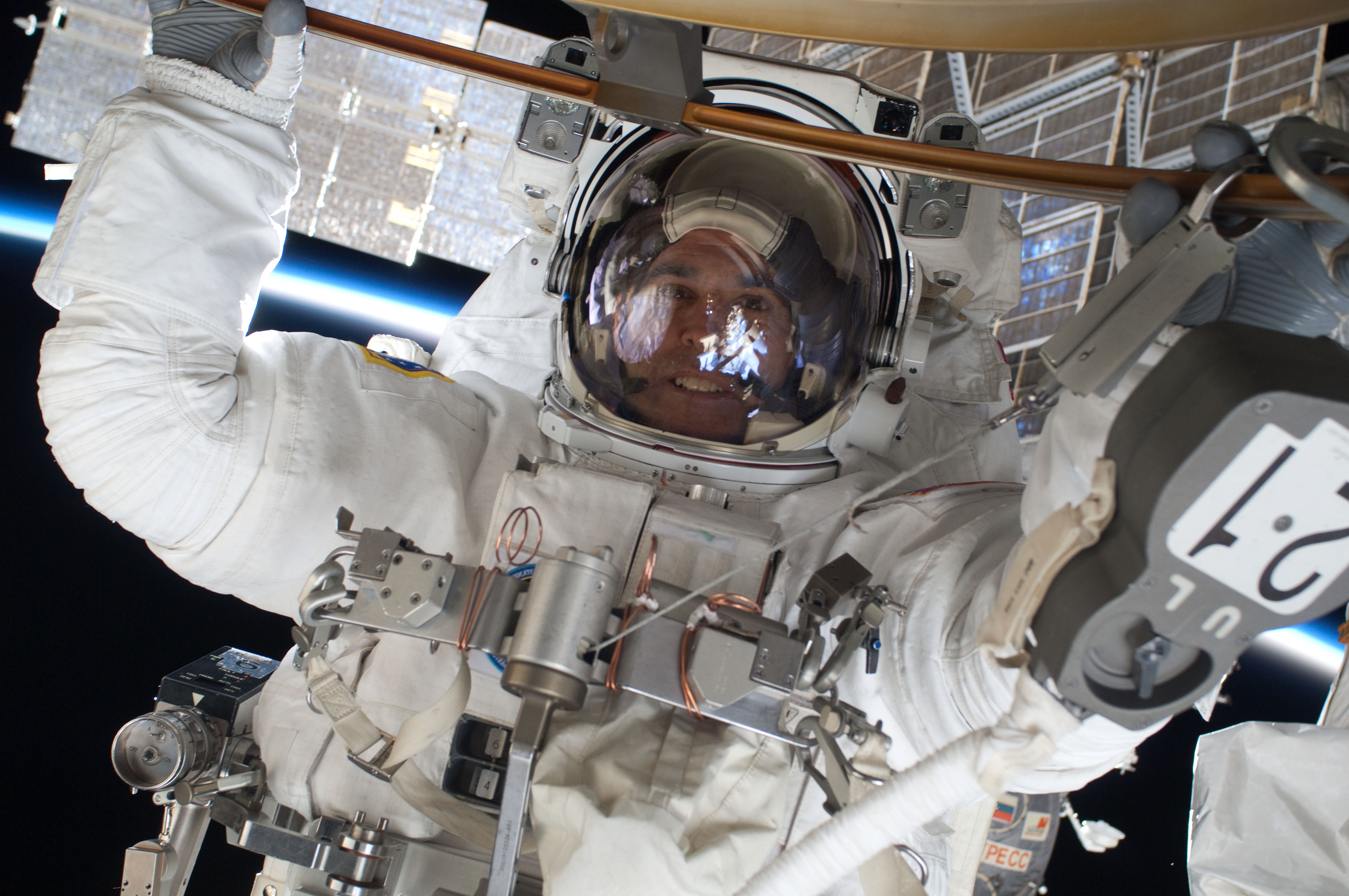 NASA astronaut Rick Mastracchio, STS-131 mission specialist, participates in the mission's first session of extravehicular activity (EVA) as construction and maintenance continue on the International Space Station. During the six-hour, 27-minute spacewalk, Mastracchio and astronaut Clayton Anderson (out of frame), mission specialist, helped move a new 1,700-pound ammonia tank from space shuttle Discovery's cargo bay to a temporary parking place on the station, retrieved an experiment from the Japanese Kibo Laboratory exposed facility and replaced a Rate Gyro Assembly on one of the truss segments.